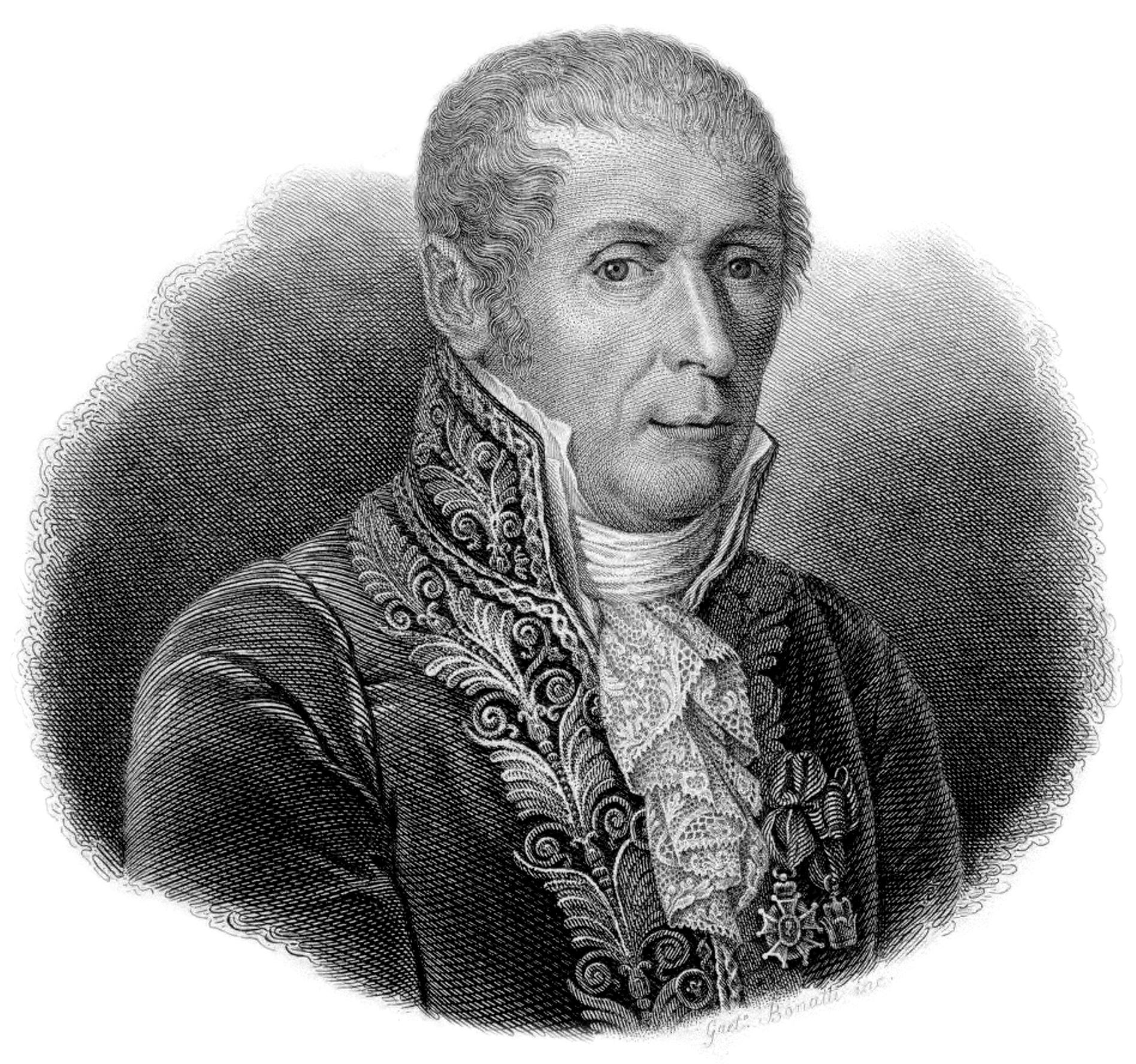 Picture of A. Volta, the noted physicist and electrical researcher